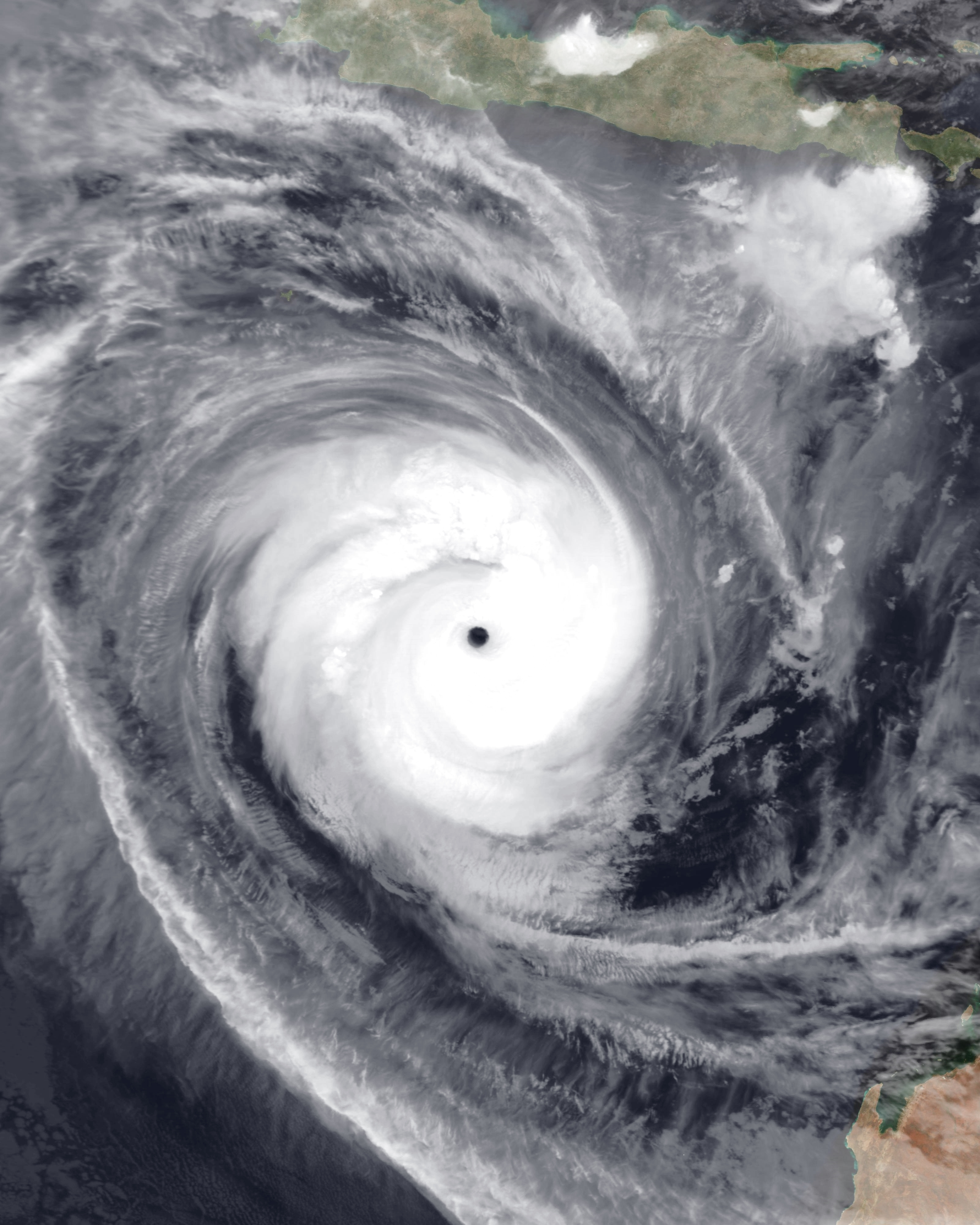 Severe Tropical Cyclone Marcus at peak intensity on 21 March 2018, over the Indian Ocean to the west of Australia.